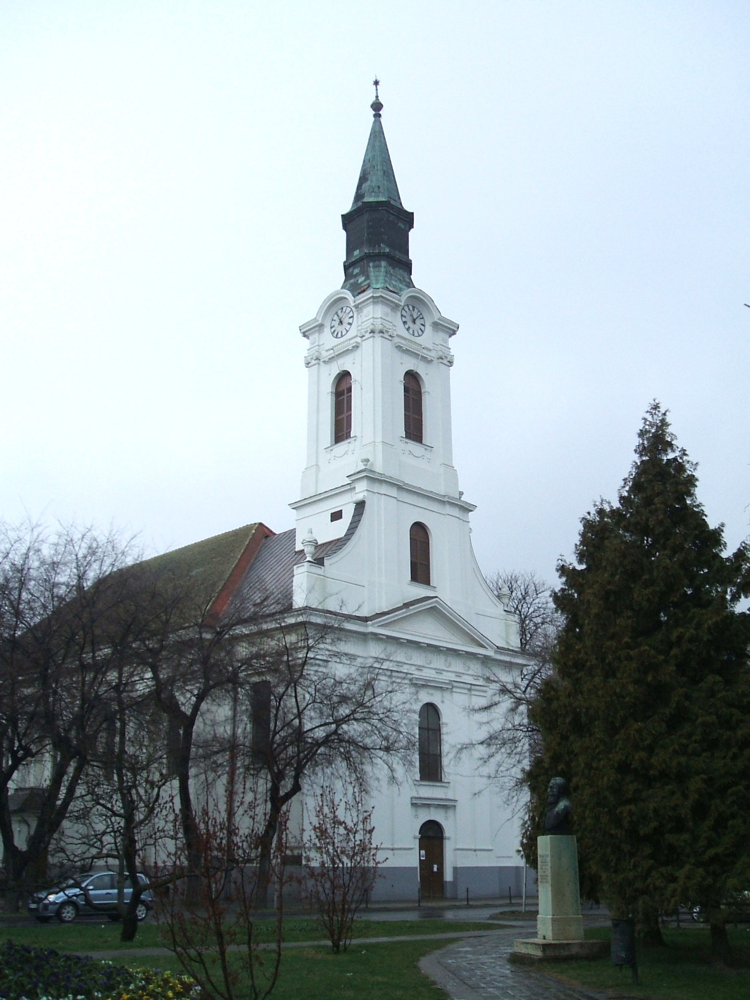 Calvinist church, Kiskunhalas, Hungary